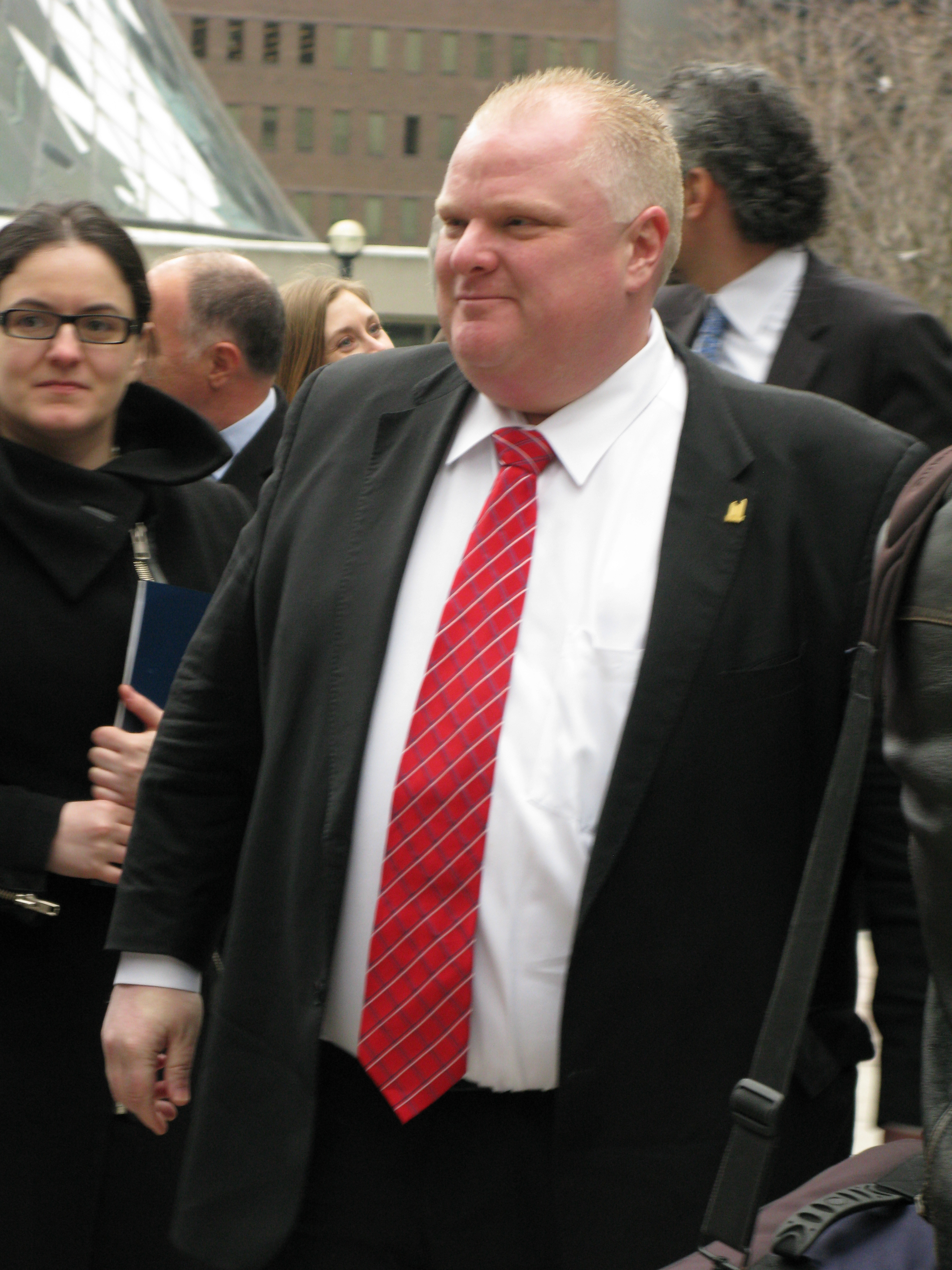 The late Toronto mayor Rob Ford in David Pecaut Square.